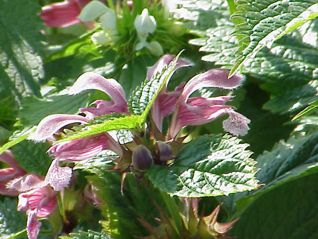 Species: Lamium orvala Family: Lamiaceae Image No. 1